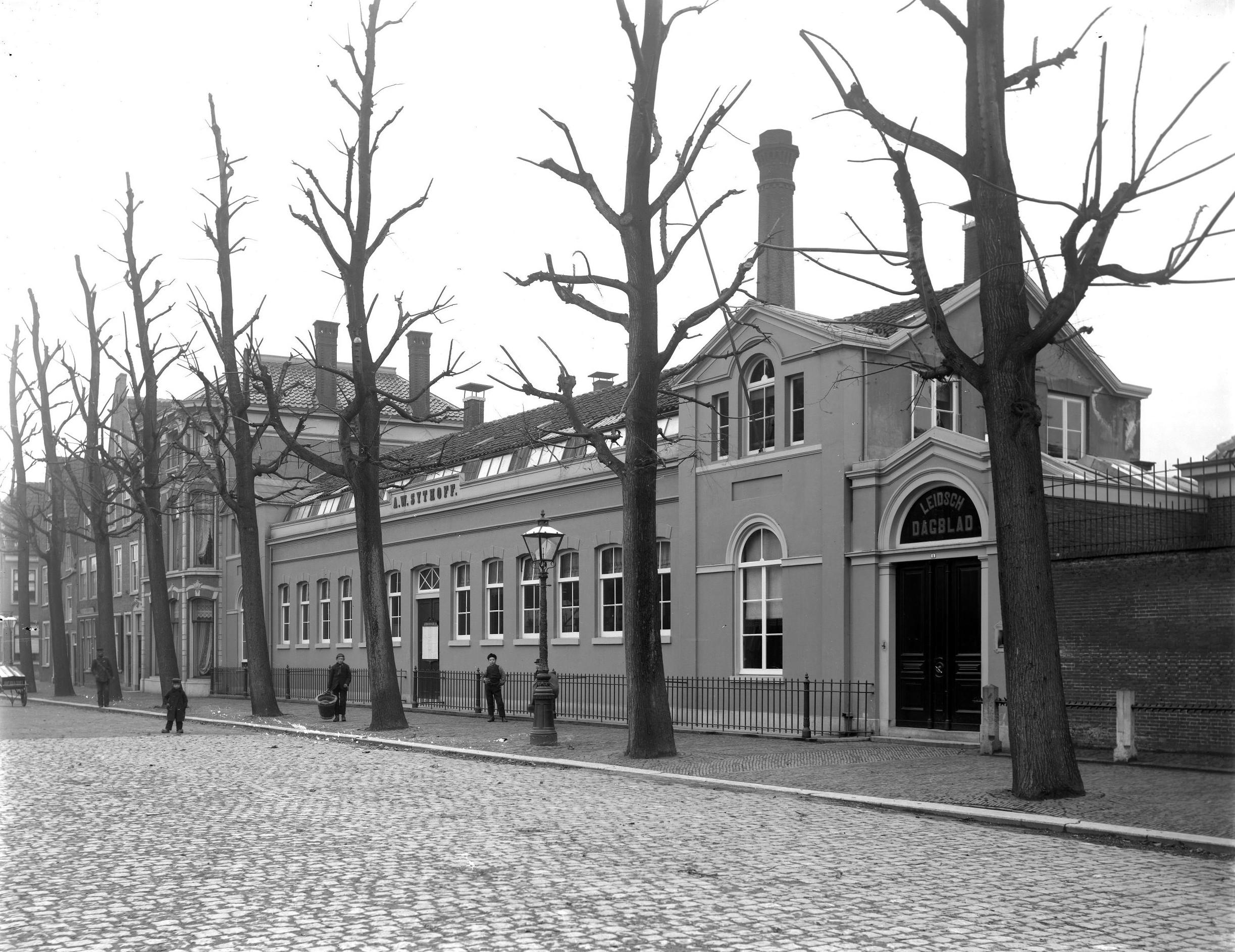 Printing office of the publisher and printer A.W. Sijthoff. Doezastraat, Leiden. The building was designed by J.W. Schaap in 1852 and replaced in 1908 with the current building (])